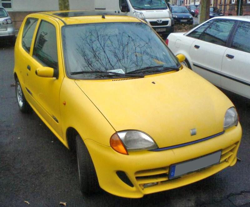 Fiat Seicento Sporting.